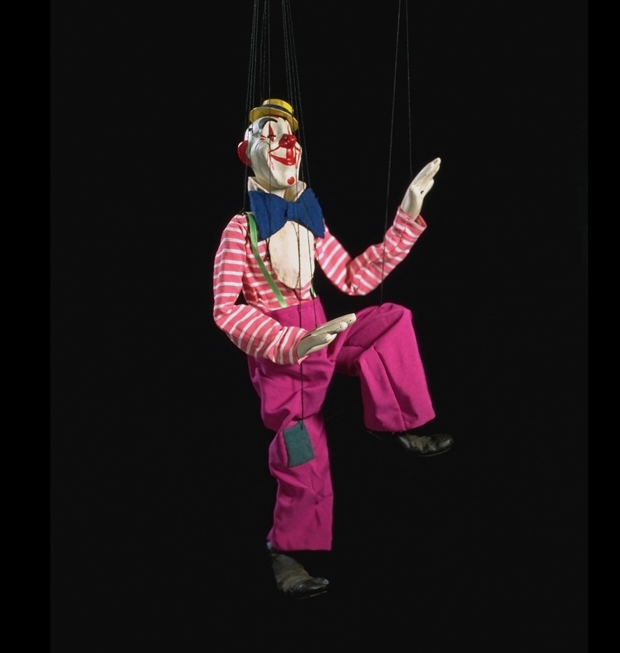 Tozer's Puppet